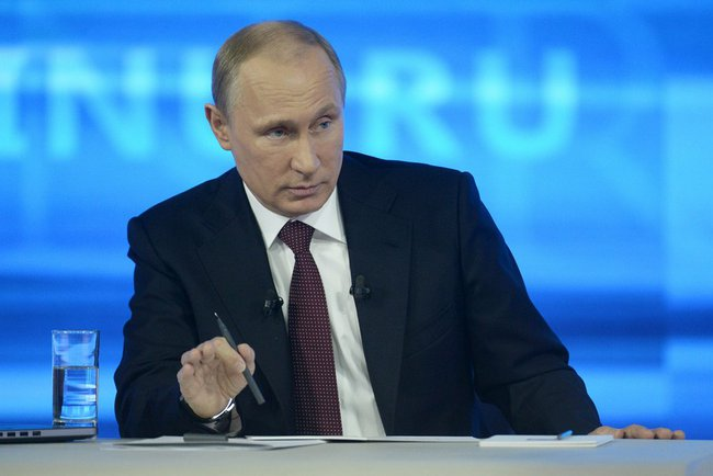 Direct Line with Vladimir Putin (2014-04-17)